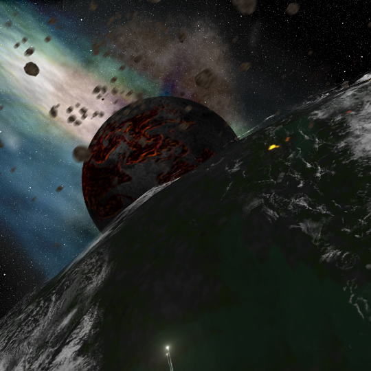 Illustration of Earth and the Moon towards the middle/end of the Hadean. Note increased proximity of the two and dark green ocean of water with large quantities of iron(II)oxide. Also included are smaller areas of reddish iron(III)oxide.